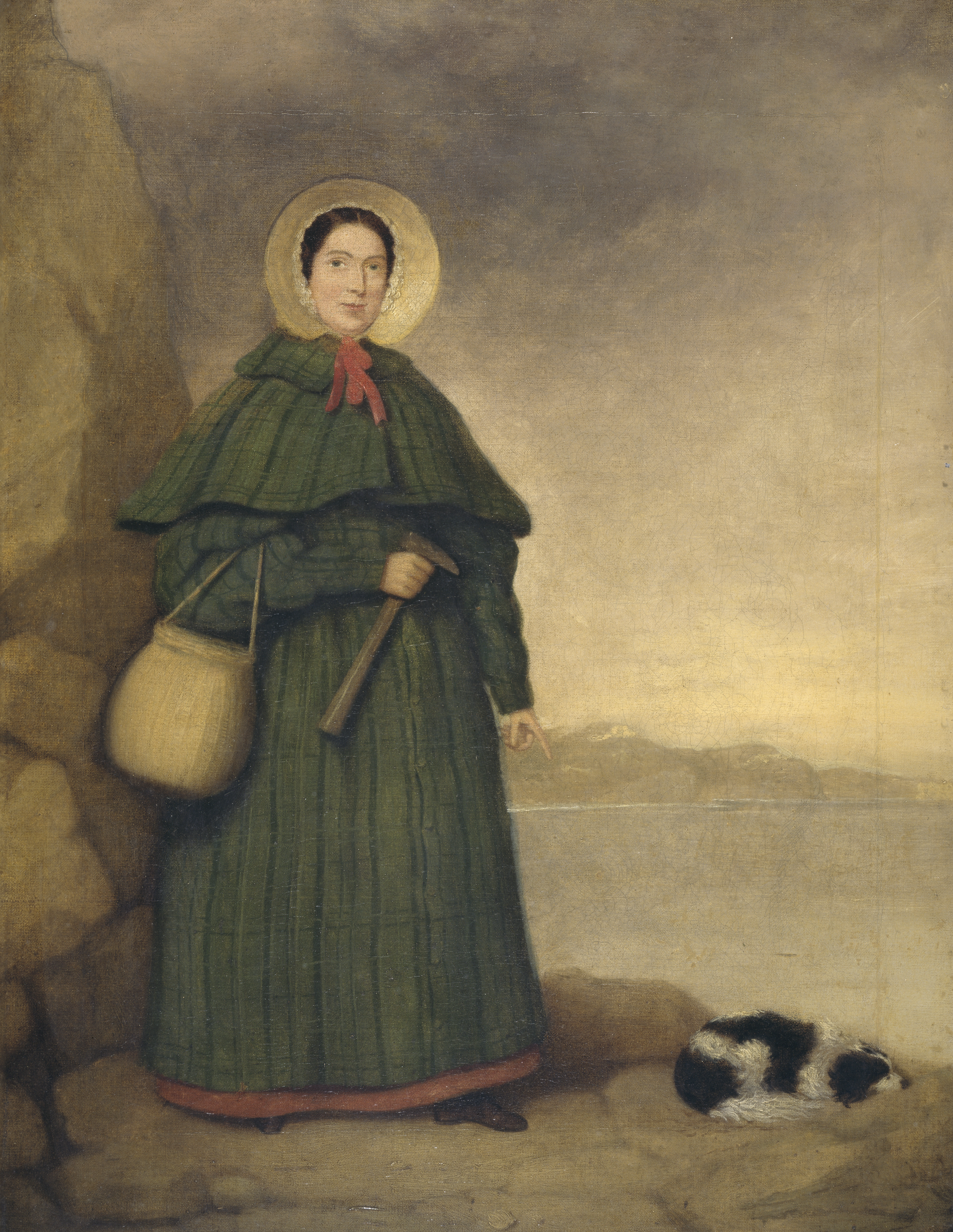 Portrait of Mary Anning with her dog Tray and the Golden Cap outcrop in the background, Natural History Museum, London. This painting was owned by her brother Joseph, and presented to the museum in 1935 by Miss Annette Anning.